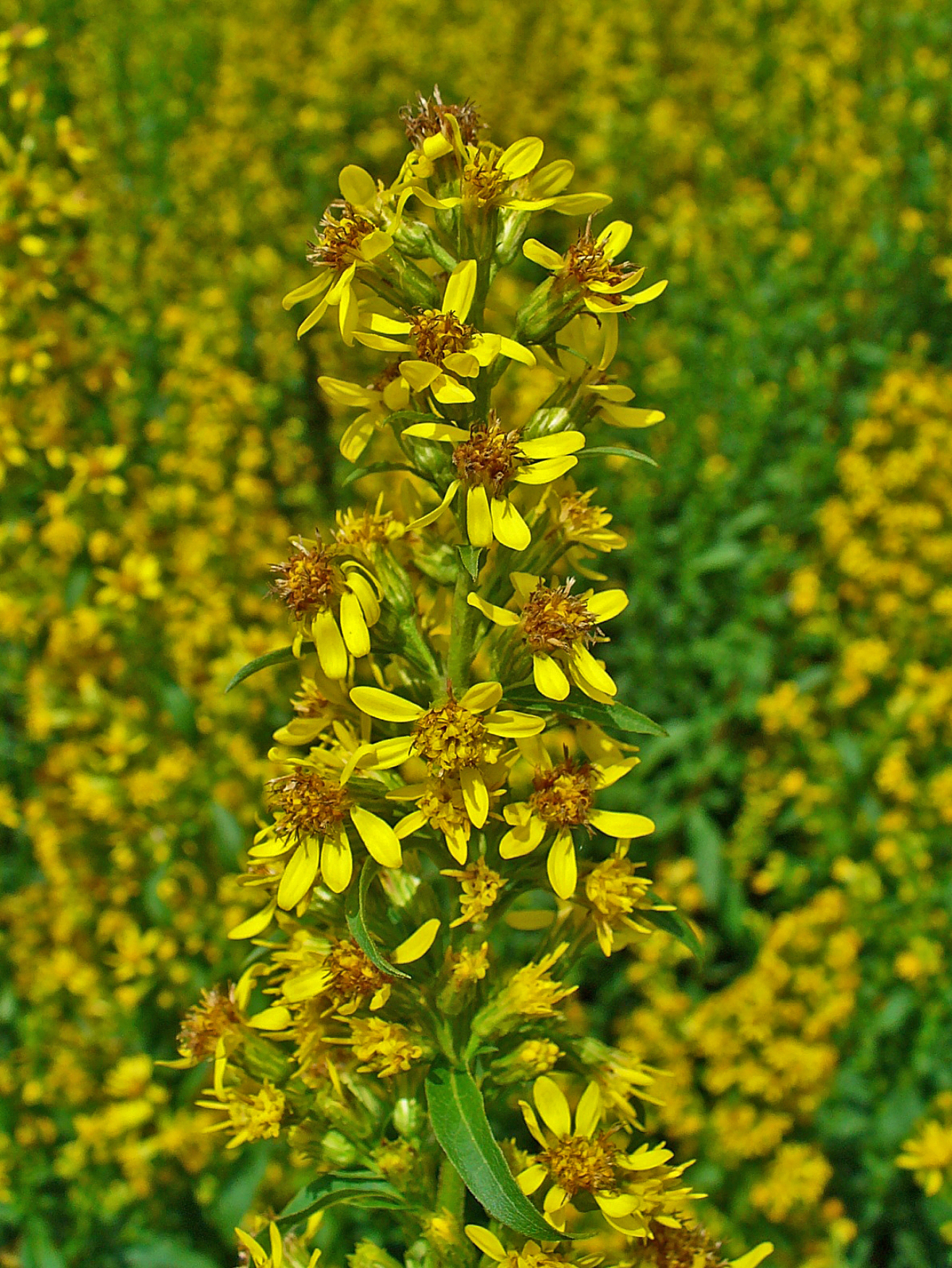 Solidago virgaurea, Asteraceae, Goldenrod, Woundwort, inflorescences.